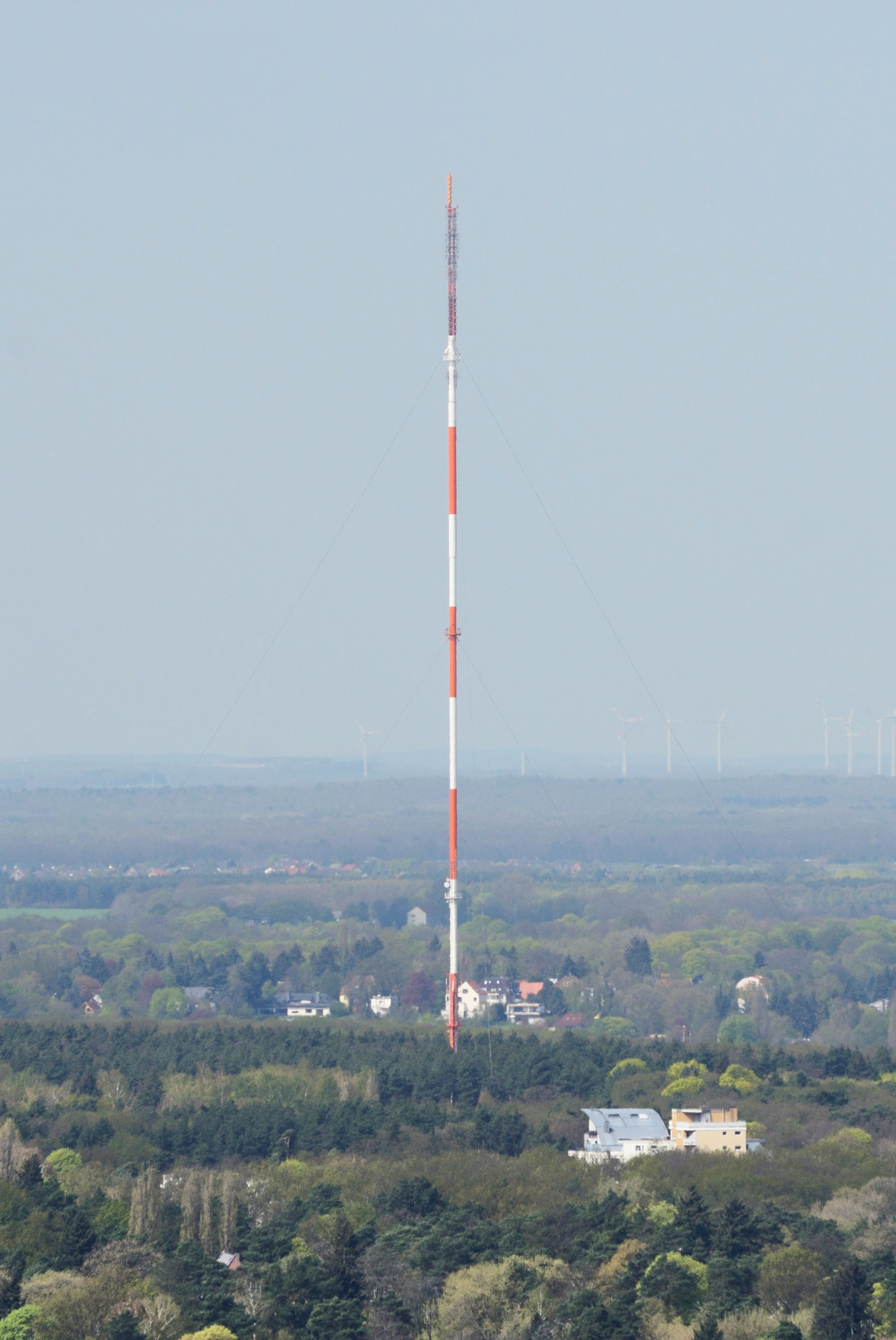 Berlin: Communication mast Scholzplatz